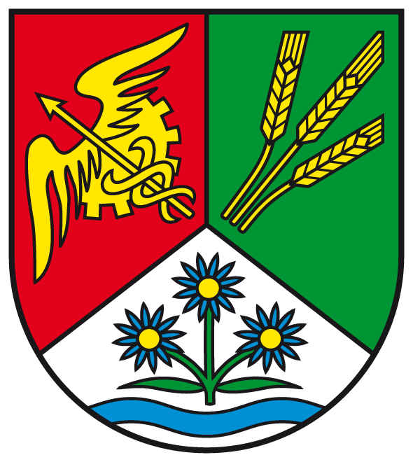 Coat of Arms of Sülzetal